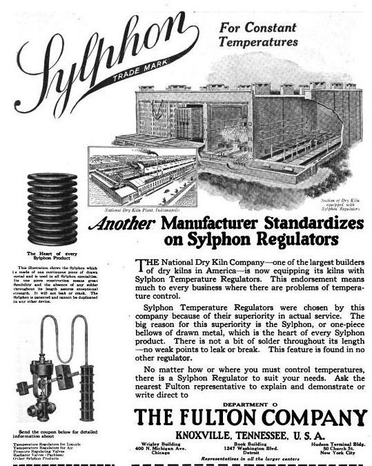 An ad for the Knoxville-based Fulton Company, which manufactured a seamless metal bellows, known as the "Sylphon," commonly used in thermostatic devices.